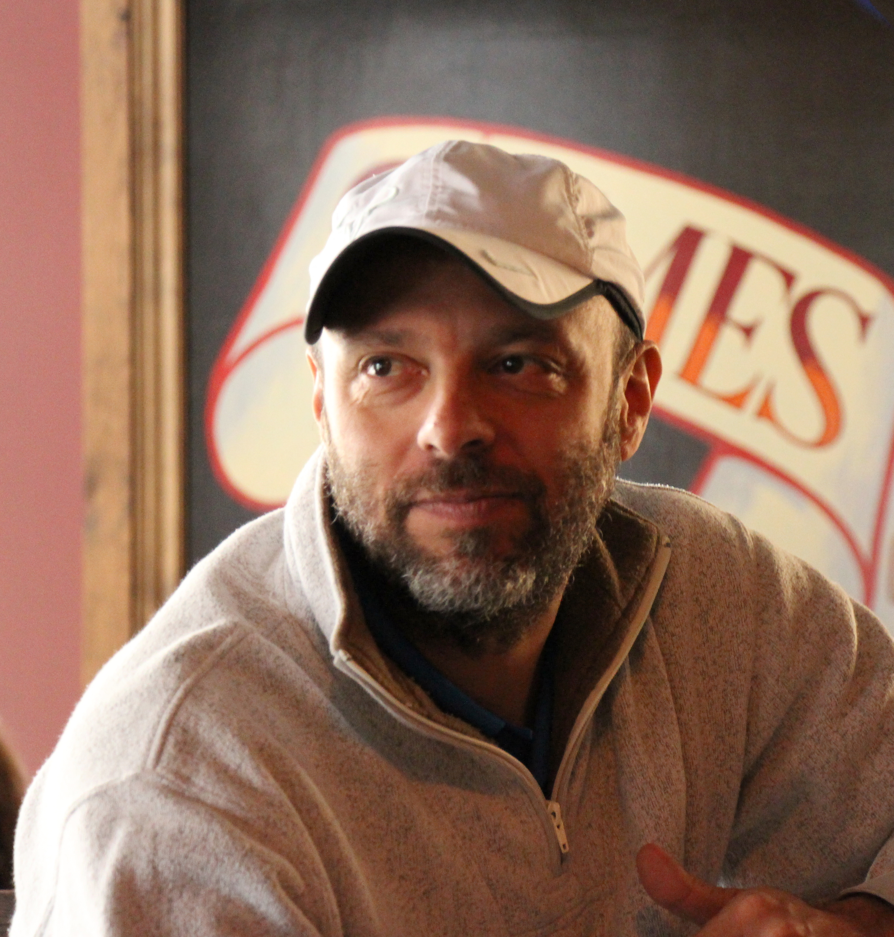 José Padilha 2013